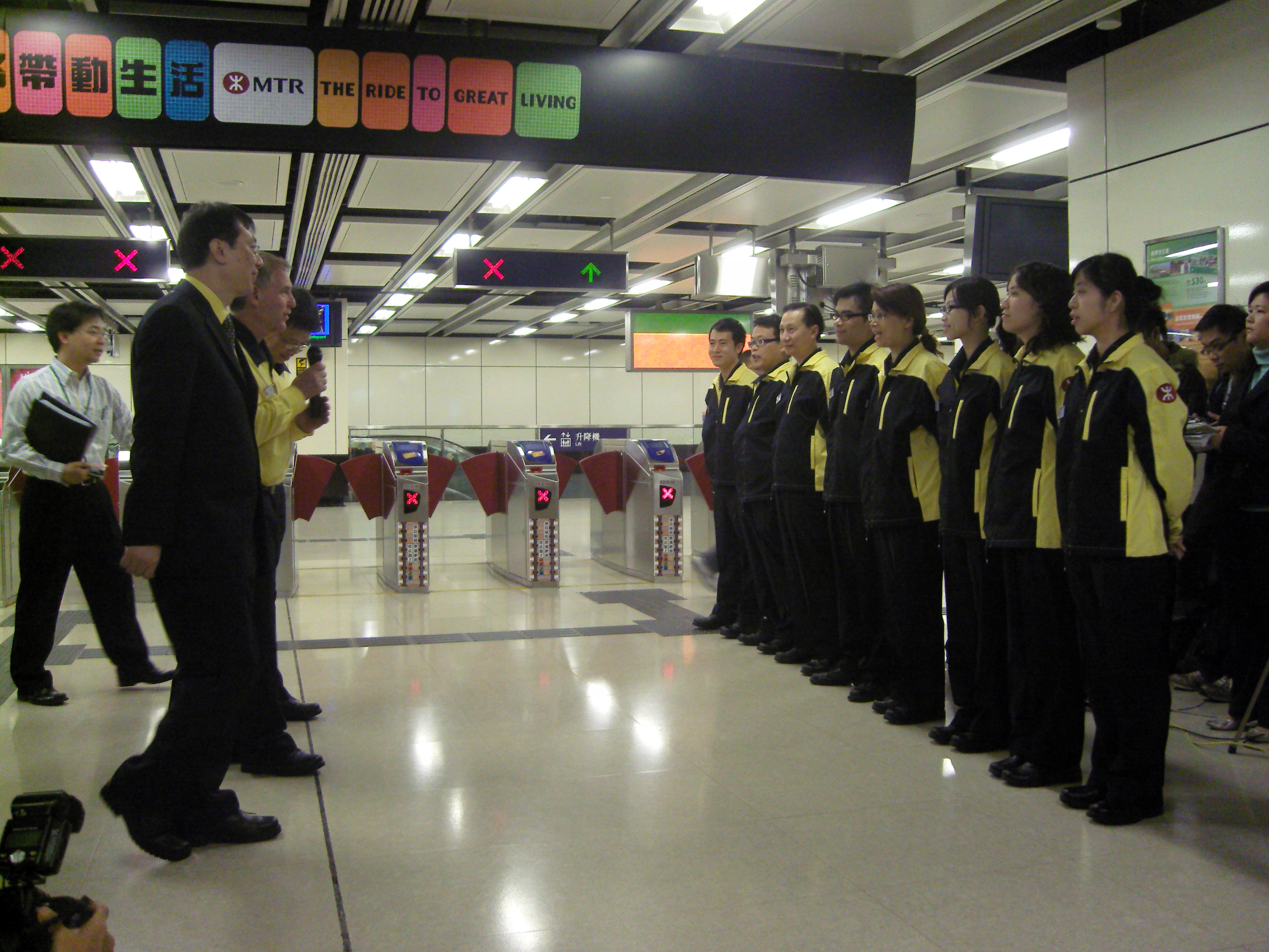 Merger of KCR and MTR operations, Hong Kong.